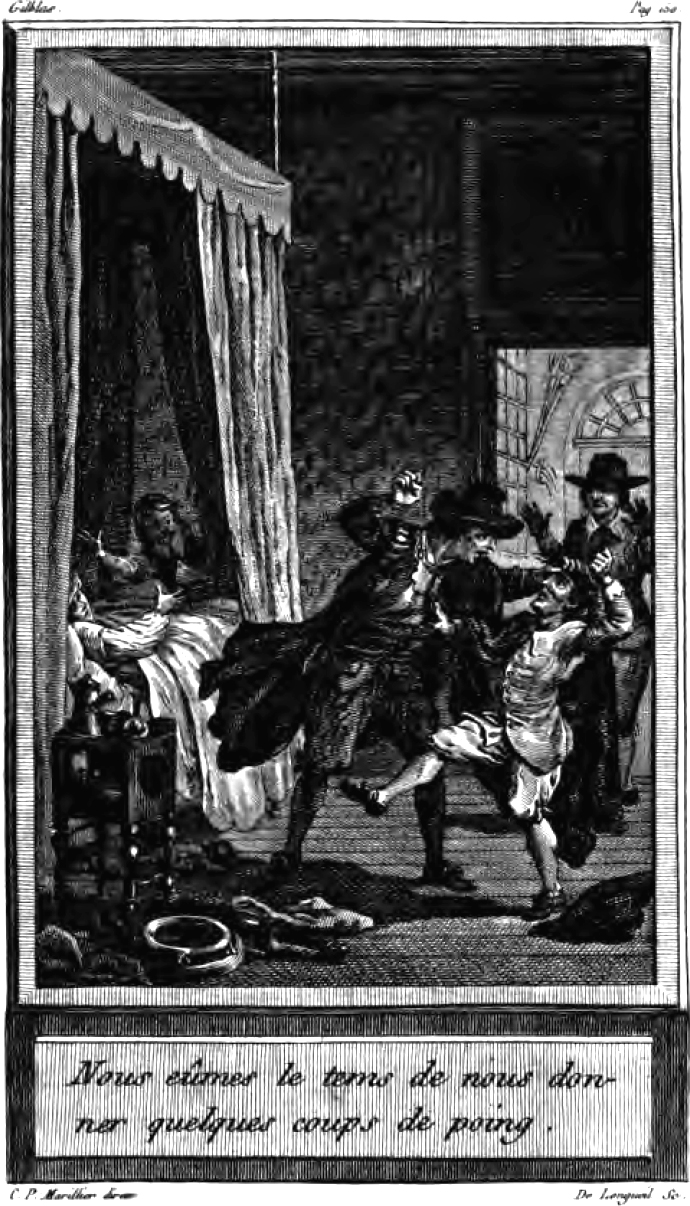 Gil Blas's fistfight with Doctor Cuchillo Alain-René Lesage's Histoire de Gil blas de Santillane